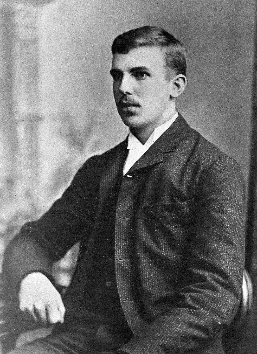 Ernest Rutherford aged 21